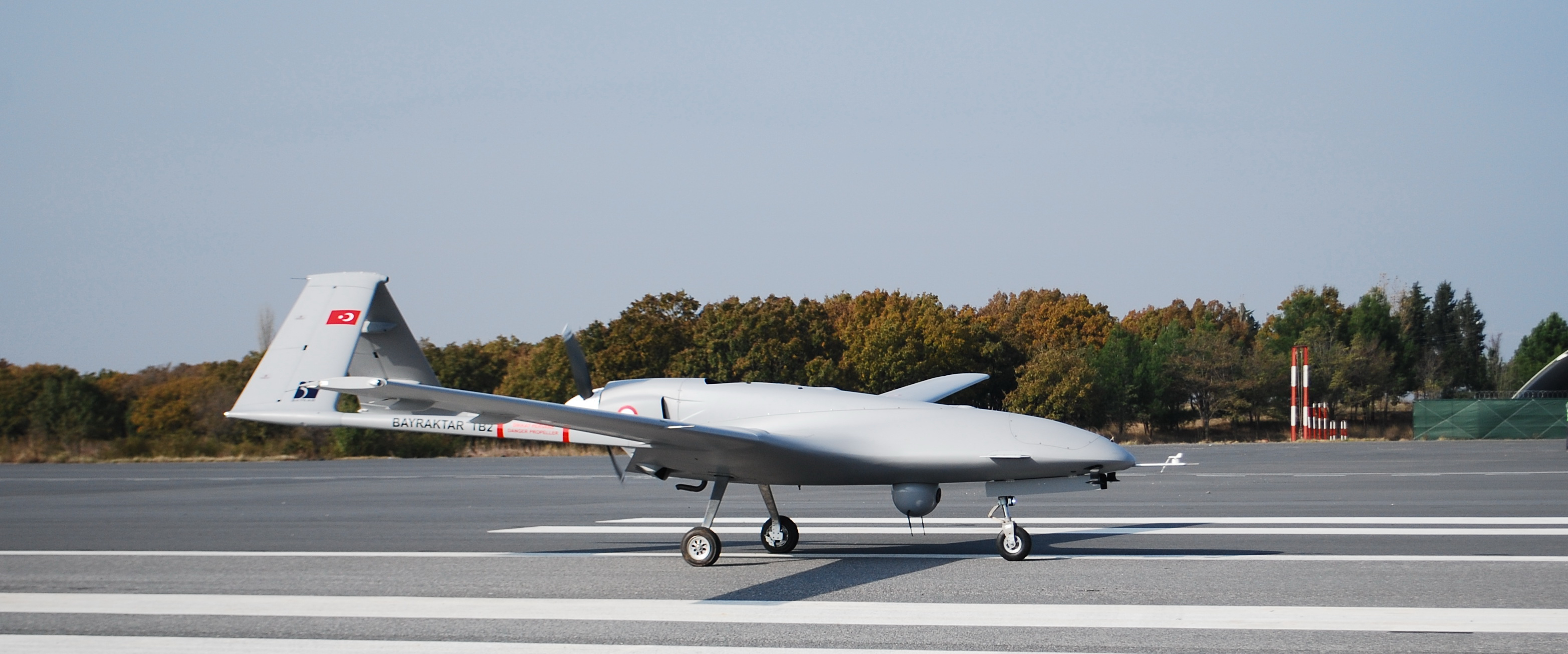 Bayraktar TB2 Runway